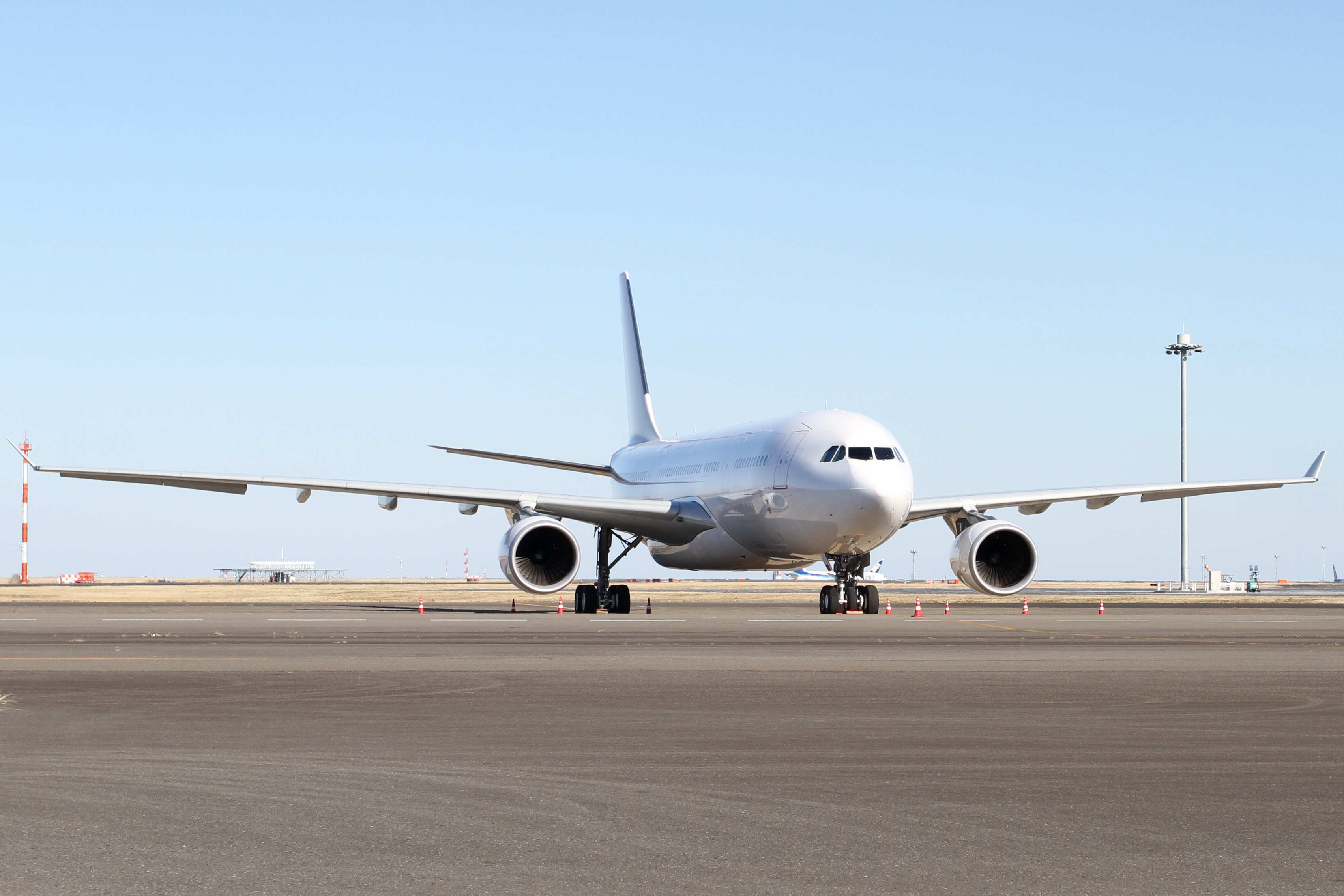 Tokyo International Airport, Airbus A330-202, c/n:1321, Hongkong Jet